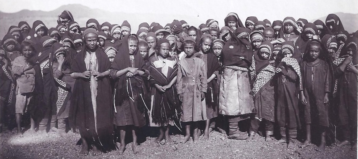 Jewish children in Sana'a, Yemen, 1901